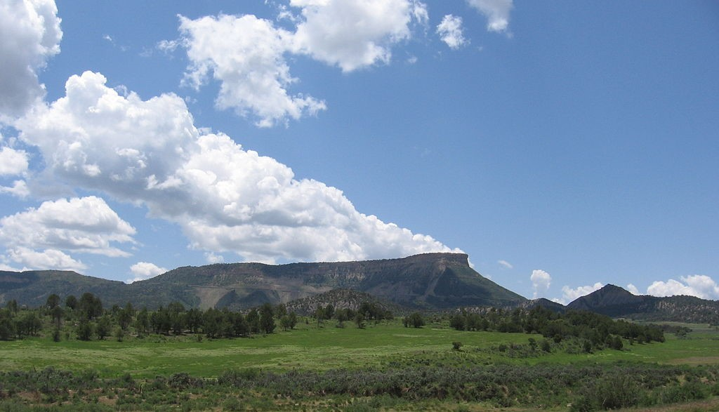 View of Mesa Verde from the north, May 2007.